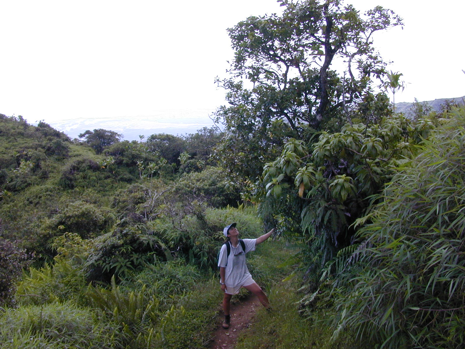 Broussaisia arguta (habit with Kim). Location: Maui, Waihee Ridge Trail